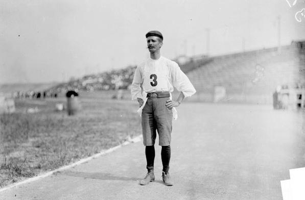 Cubanian athlete Andarín Carvajal at the 1904 Olympic Games. Chicago Daily News negatives collection, SDN-002618. Courtesy of the Chicago Historical Society. Taken in 1904 (